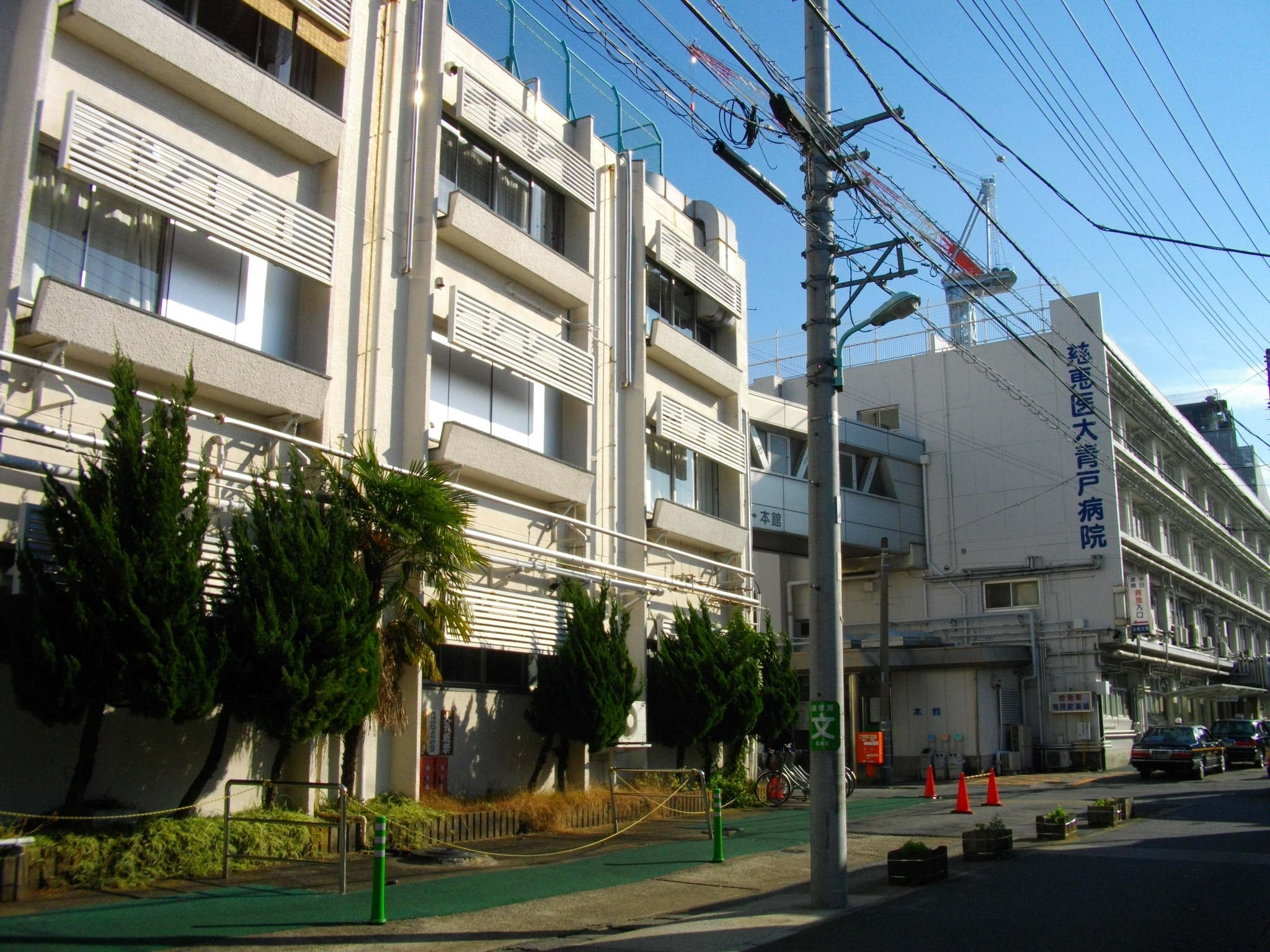 Jikei University Aoto Hospital